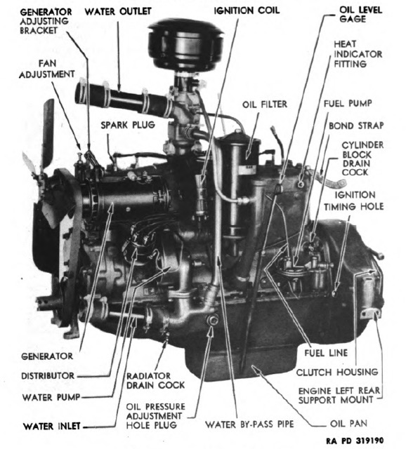 Hercules JXD engine left side